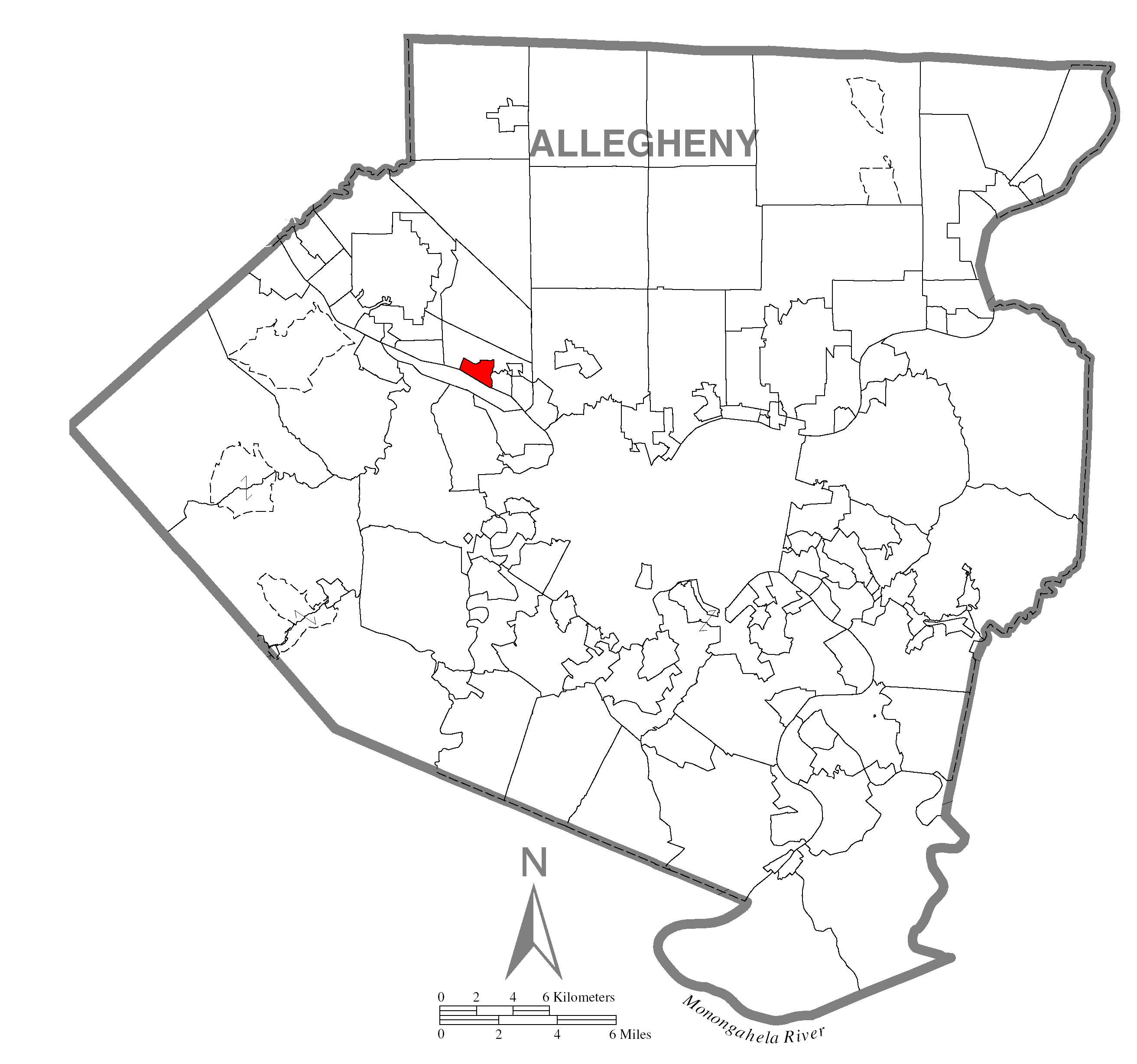 A map of Allegheny County showing Emsworth, Pennsylvania (alternate) highlighted on the map.